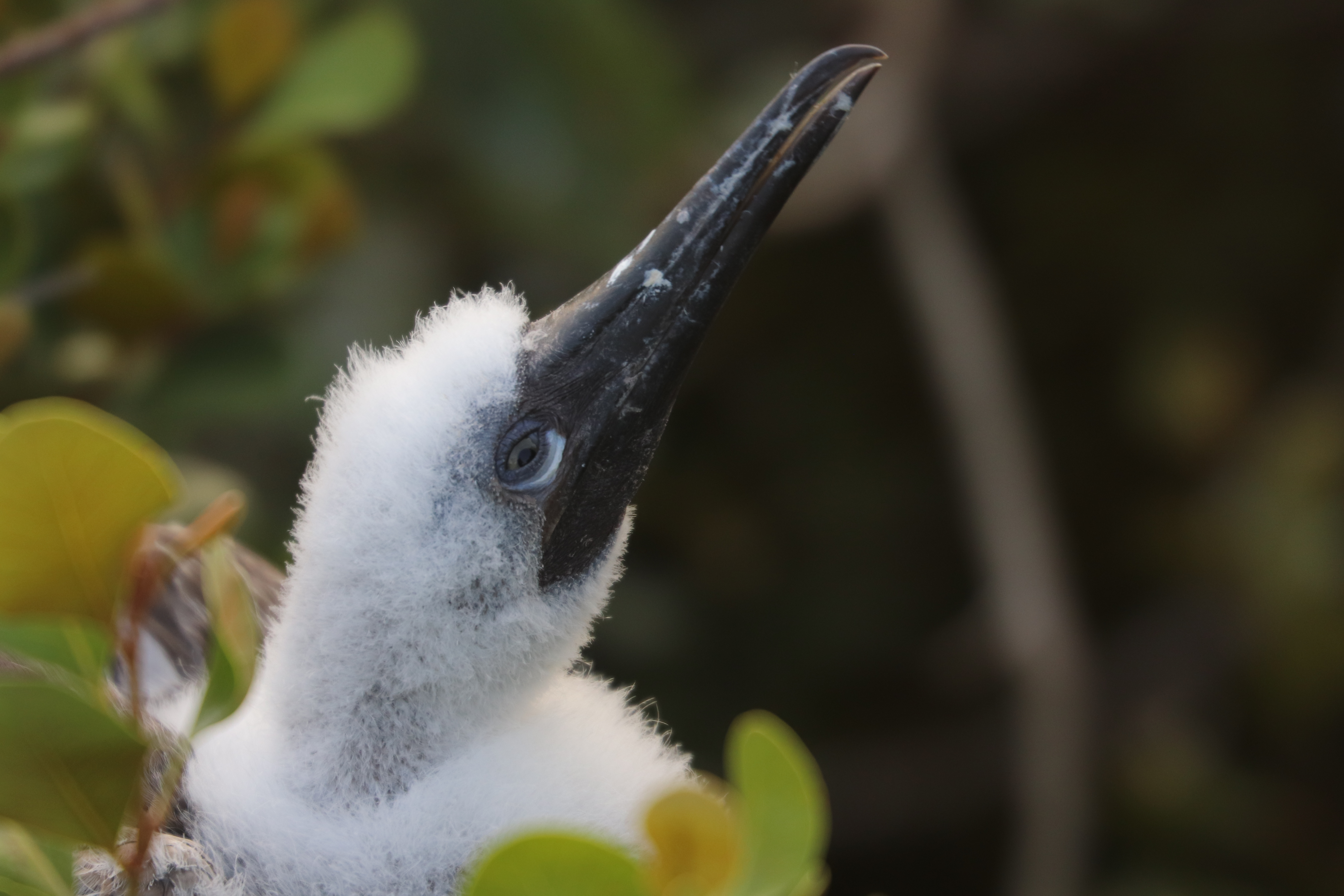 baby booby